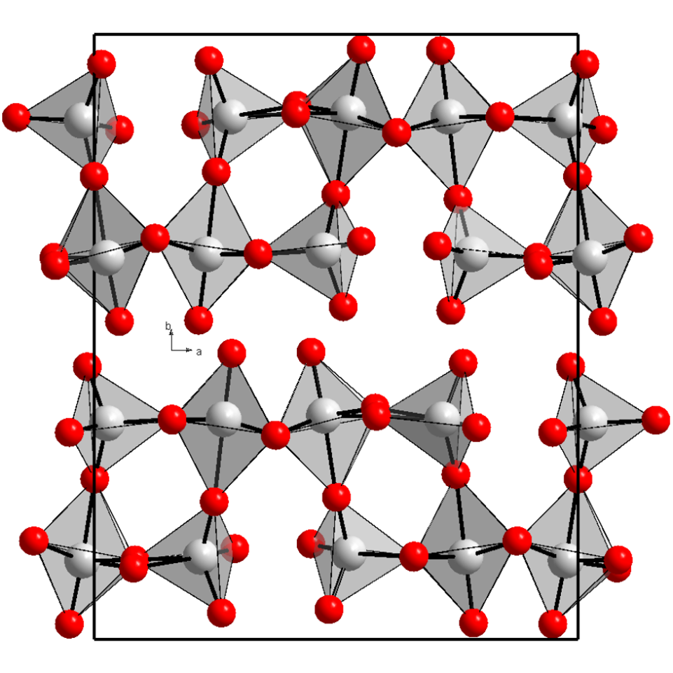 Crystal structure of Rhenium(VII) oxide